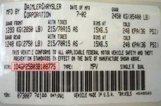 Vehicle Identification Number label for a DaimlerChrysler vehicle made in the United States.